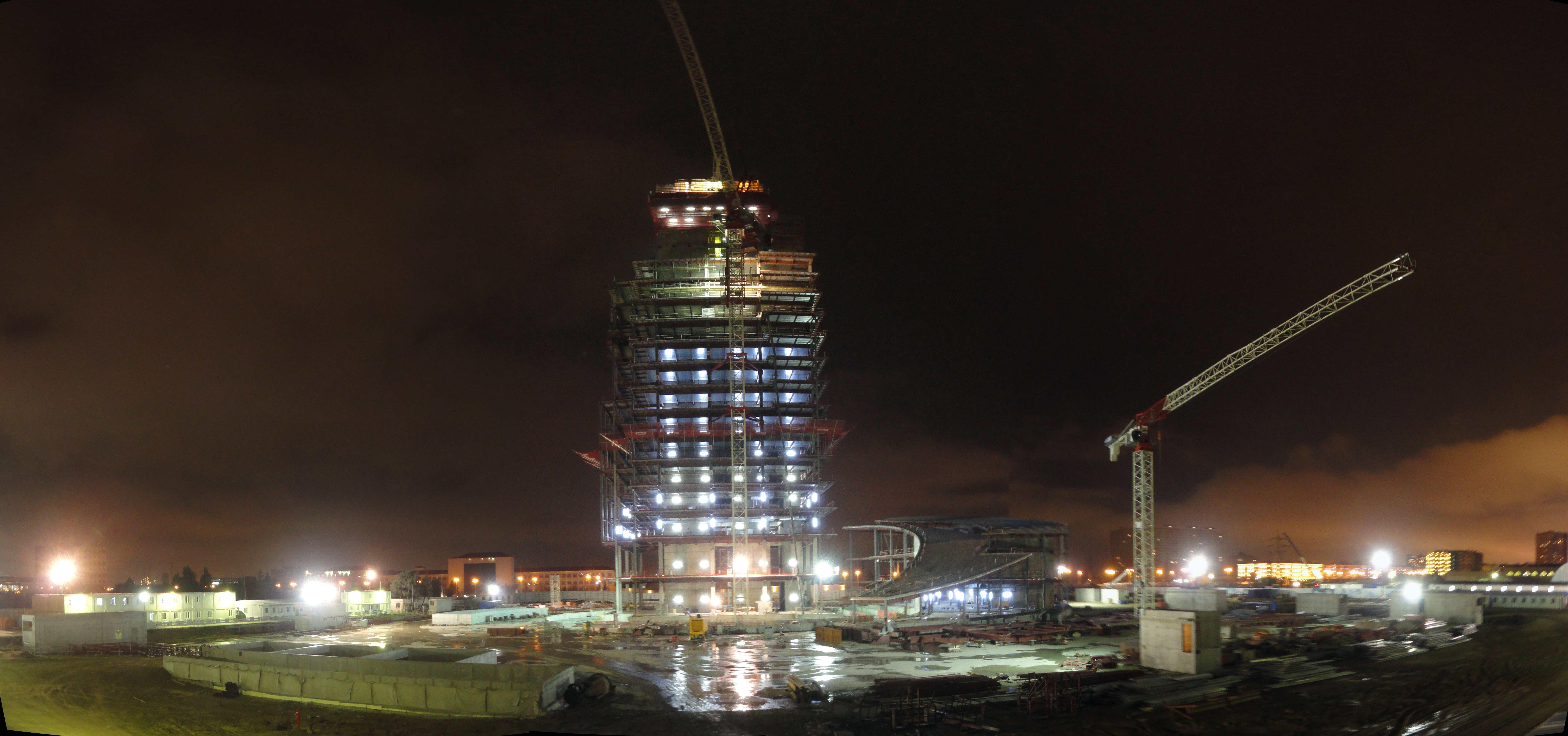 Construction of the SOCAR Tower in Baku, Azerbaijan